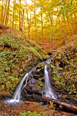 Pehcevo waterfalls, Ravna Reka